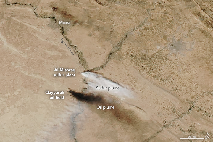 The natural-color image was captured by MODIS on October 22, 2016. The plume from the Al-Mishraq sulfur plant appears white-gray because it is rich with sulfate aerosols and droplets of sulfuric acid, which reflect light. Smoke plumes from the Qayyarah oil field are black because they are rich with black carbon and other aerosols that absorb light.